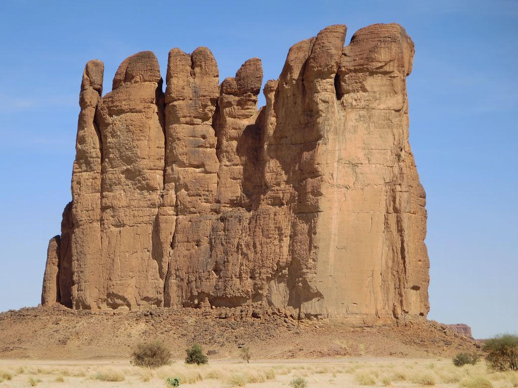 These majestic sandstone pinnacles greet visitors to the Ennedi Mountains of northeastern Chad, Central Africa.